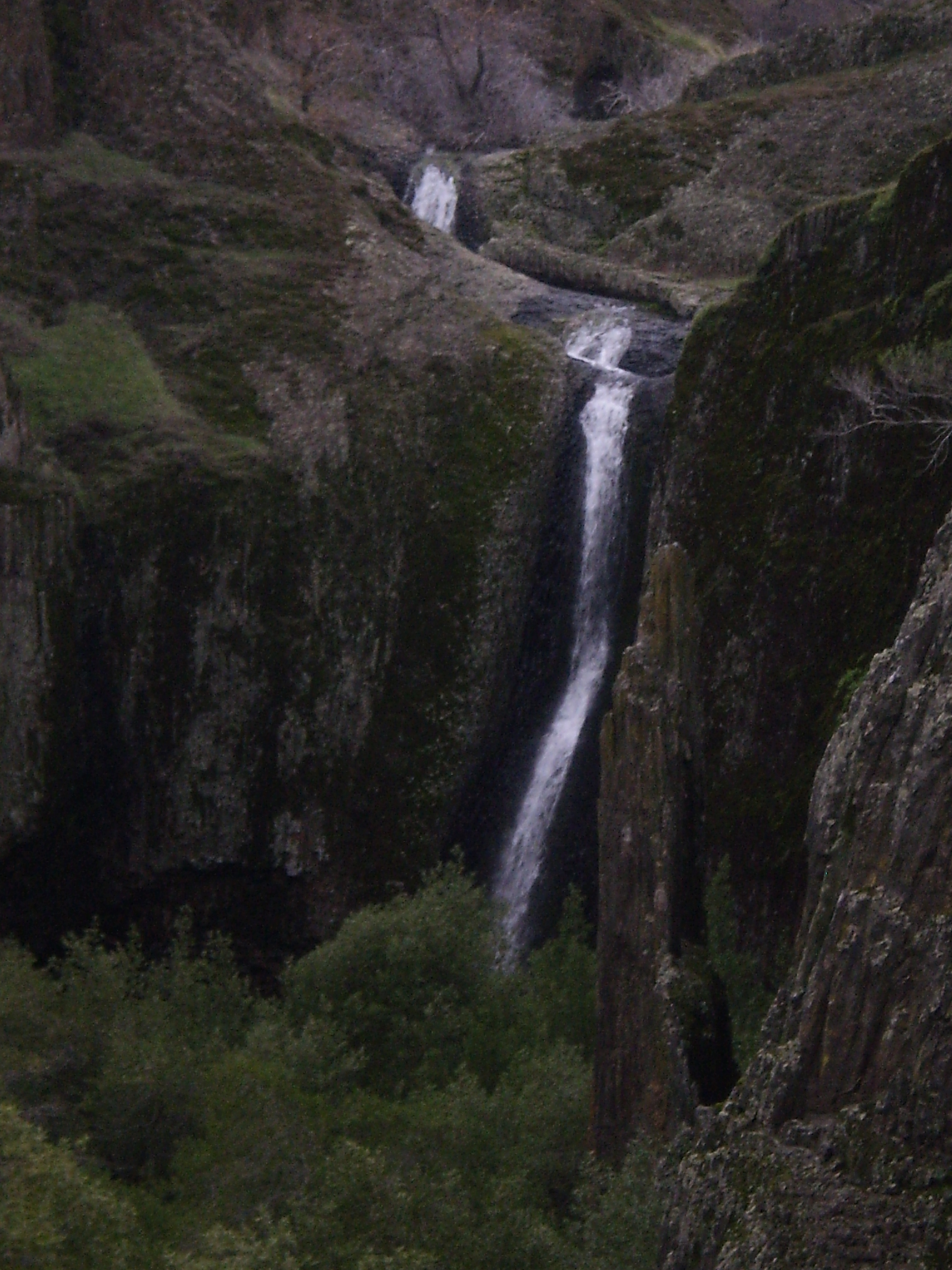 Beatson Falls on Table Mountain (Butte County, California).